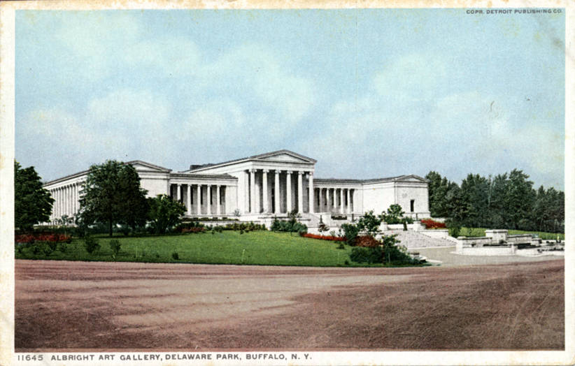 Albright Art Gallery, Delaware Park